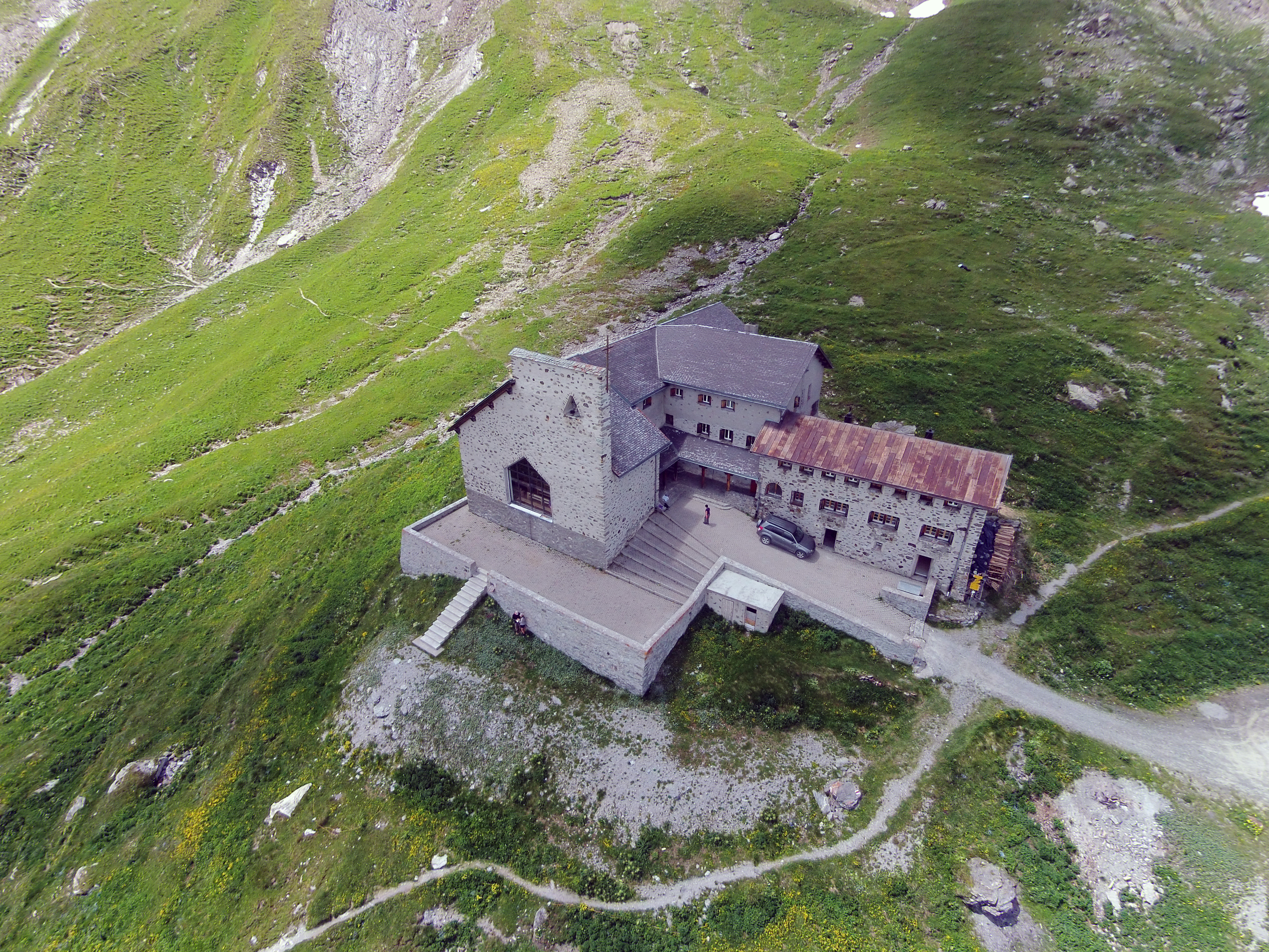 Aerial recording of Ziteil (2429 m, Salouf, Grisons, Switzerland)